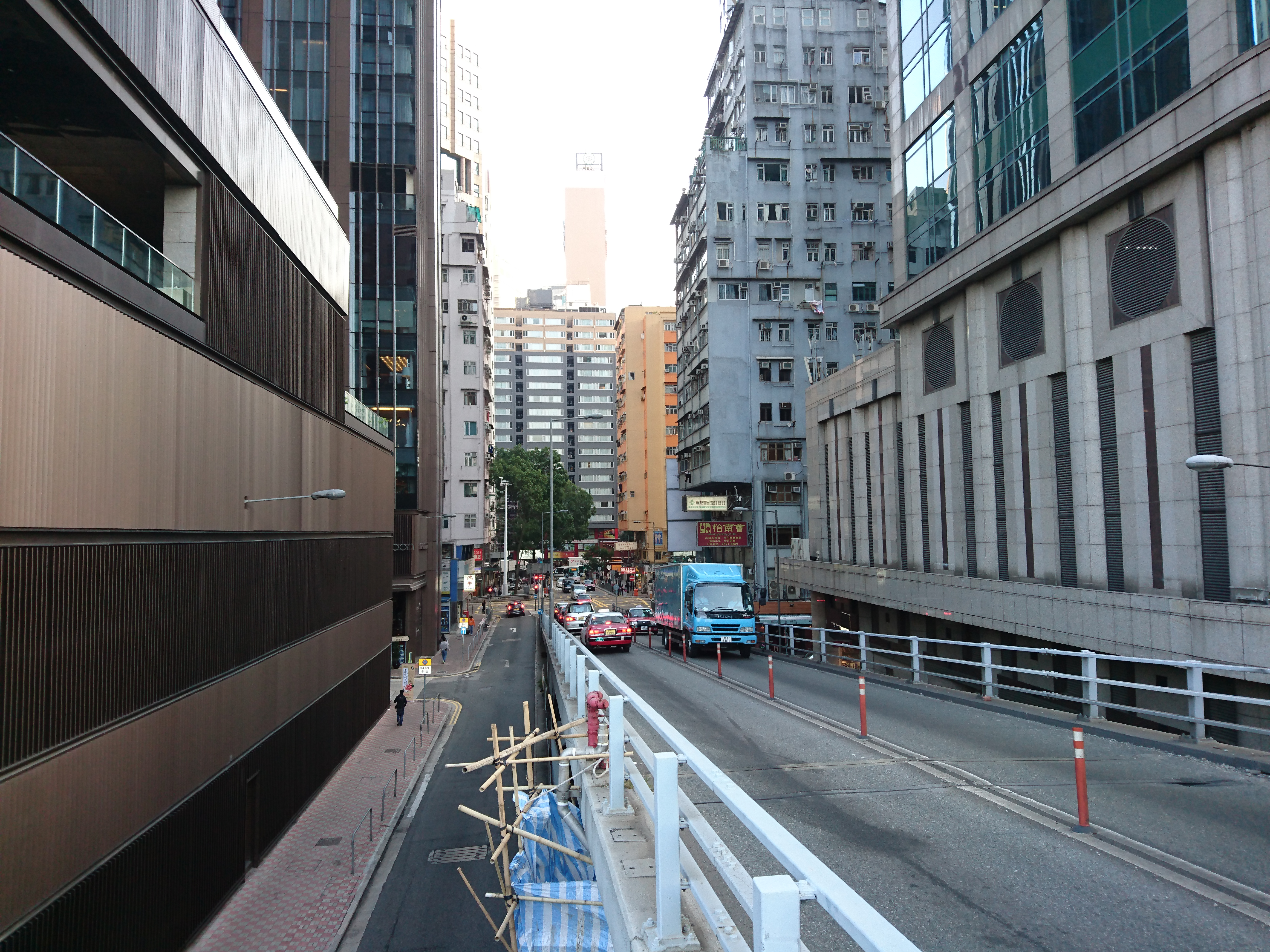 Marsh Road Flyover towards South